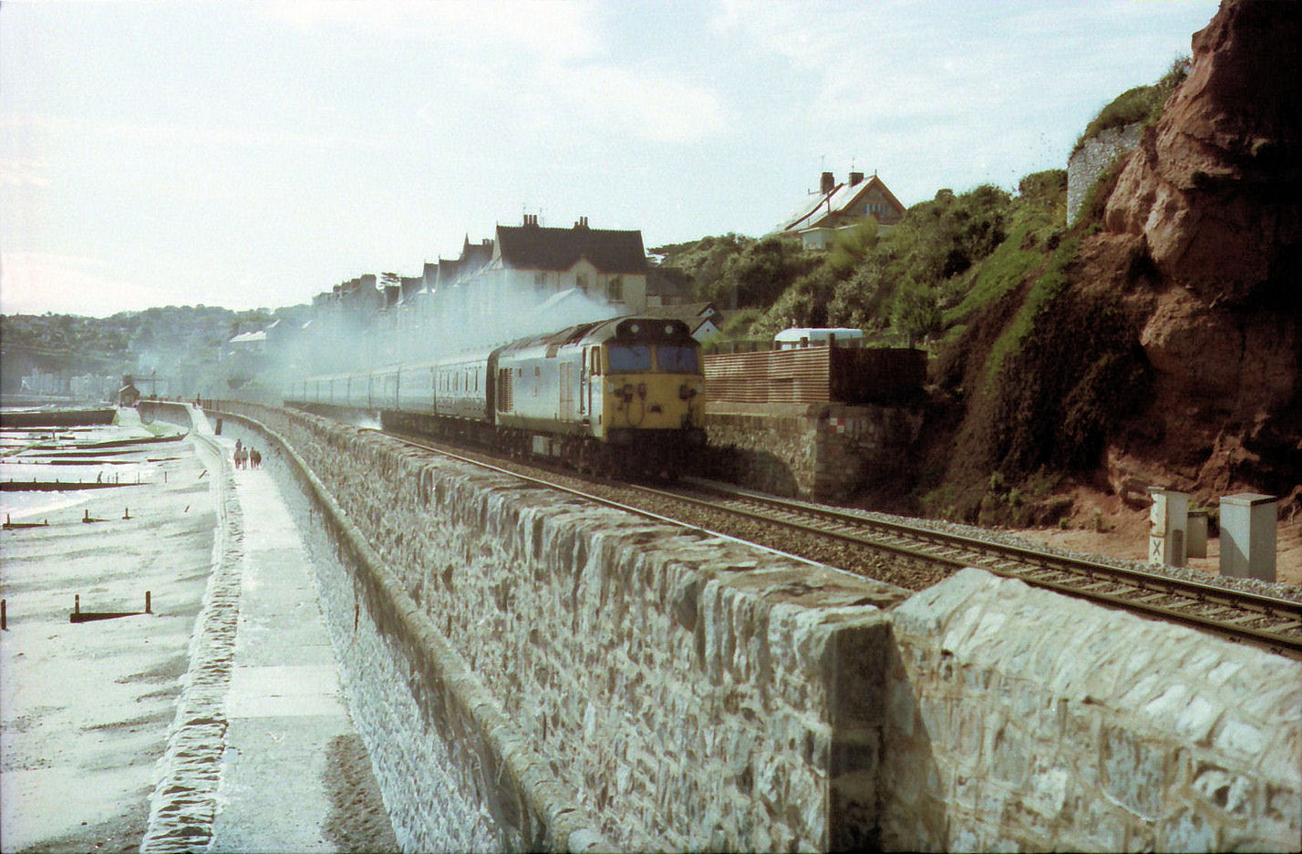 Thundering along the sea wall from Dawlish towards Dawlish Warren in the 1970s, a smokey Class 50